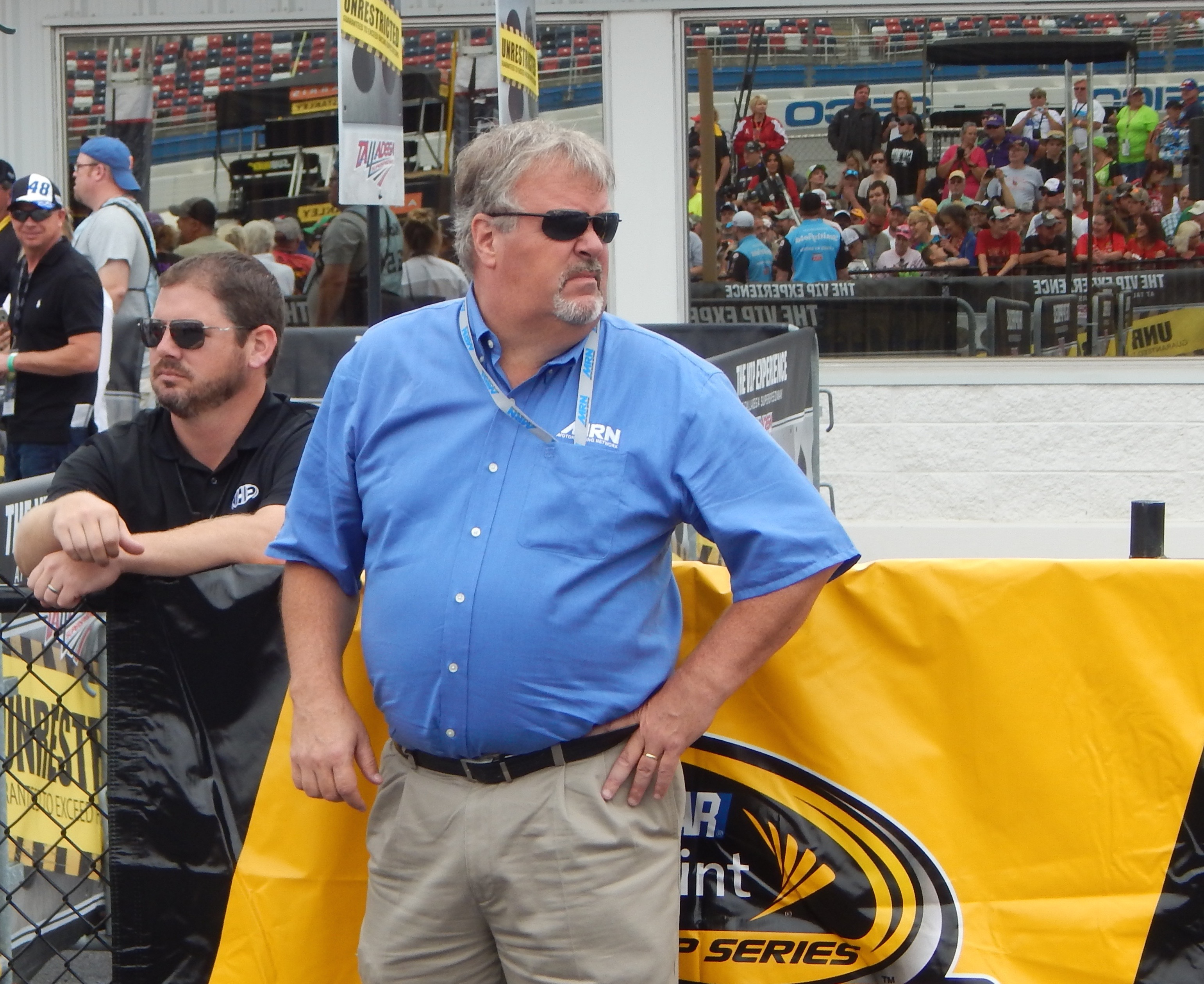 MRN radio's Dave Moody at Talladega Superspeedway.